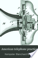 Cover Art for the book